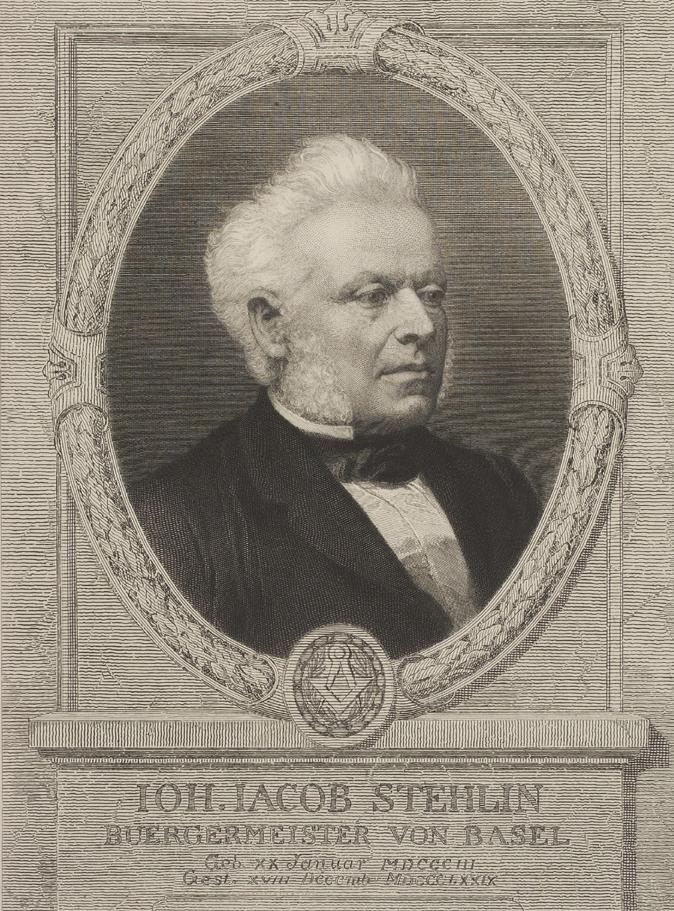 Johann Jakob Stehlin (1803–1879), Swiss politician, Mayor of Basel (1858; 1860; 1862; 1864; 1866 and 1868). Elected in the Swiss Federal Council, but declined.